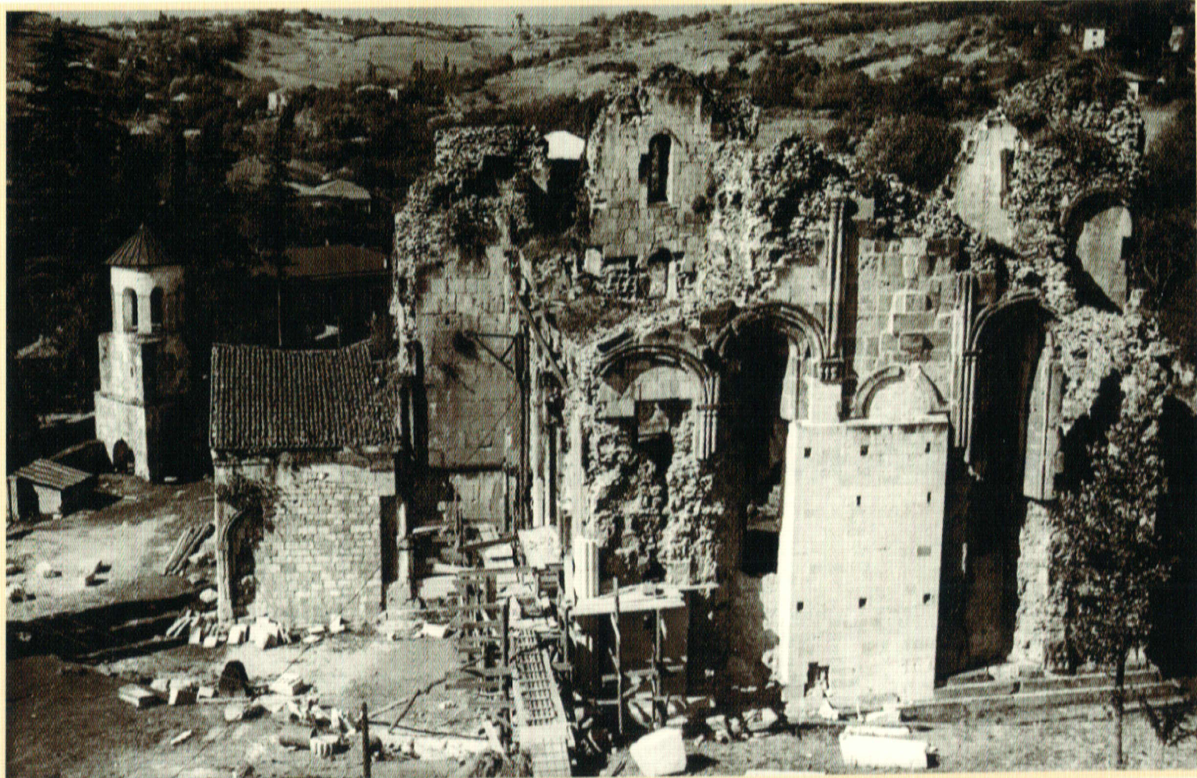 Bagrati cathedral in 1930 year